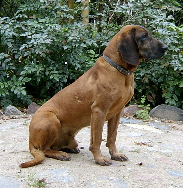 Bavarian Mountain Hound (name: Zoran Spod Ruskiej Granicy).